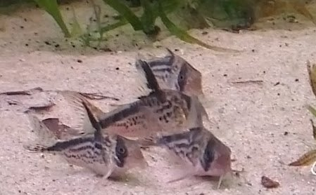 A group of Corydoras loxozonus